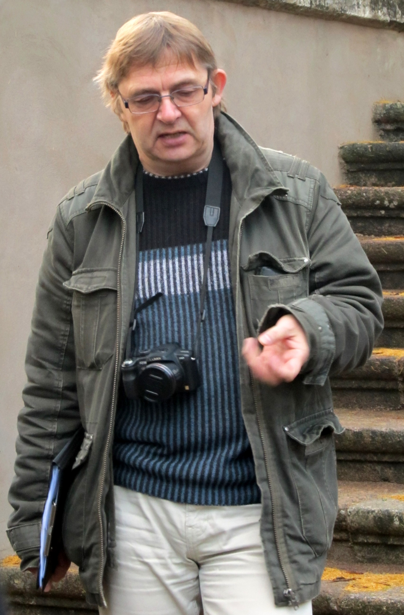 Estonian historian Mati Laur in 2012